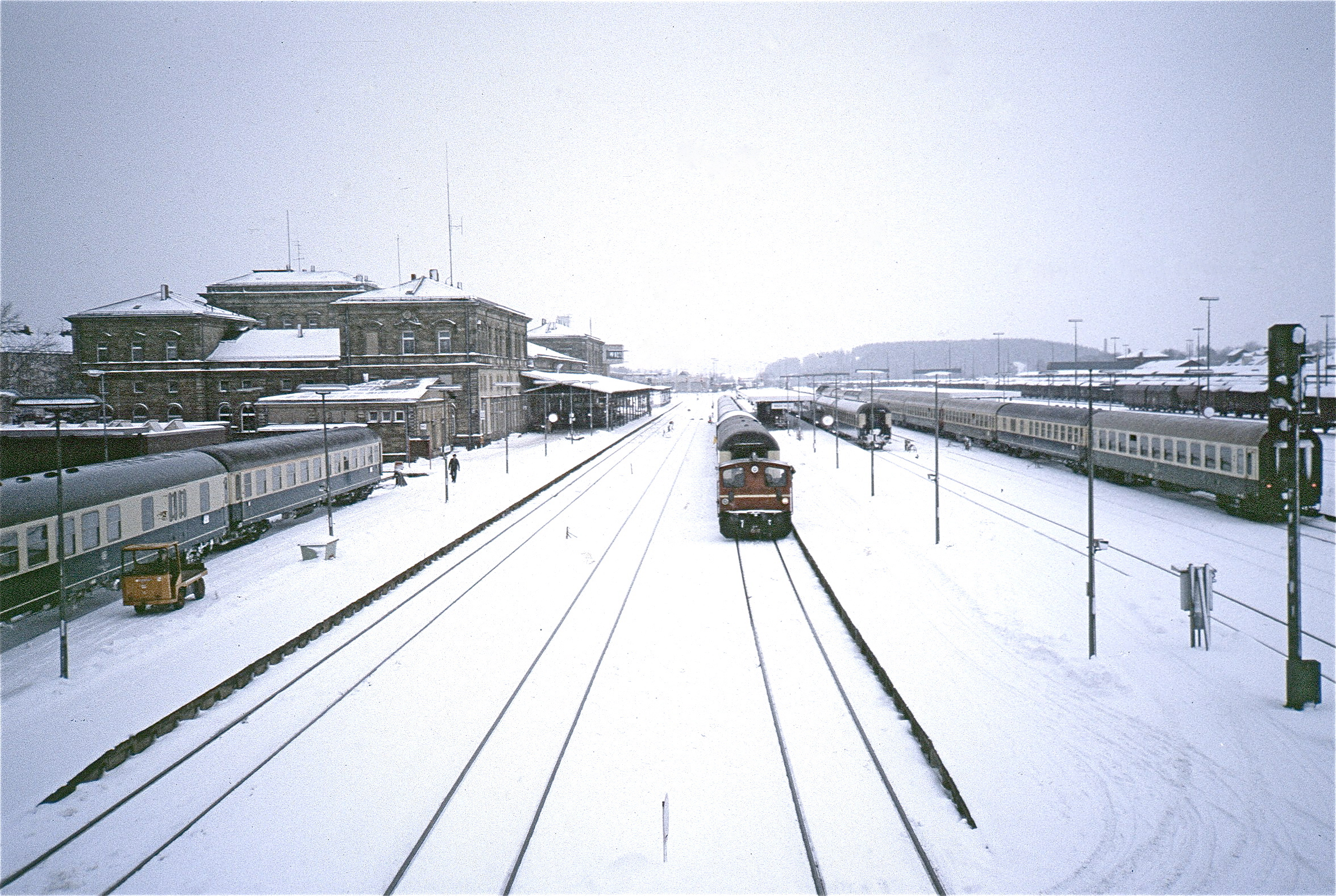 Hof railway station